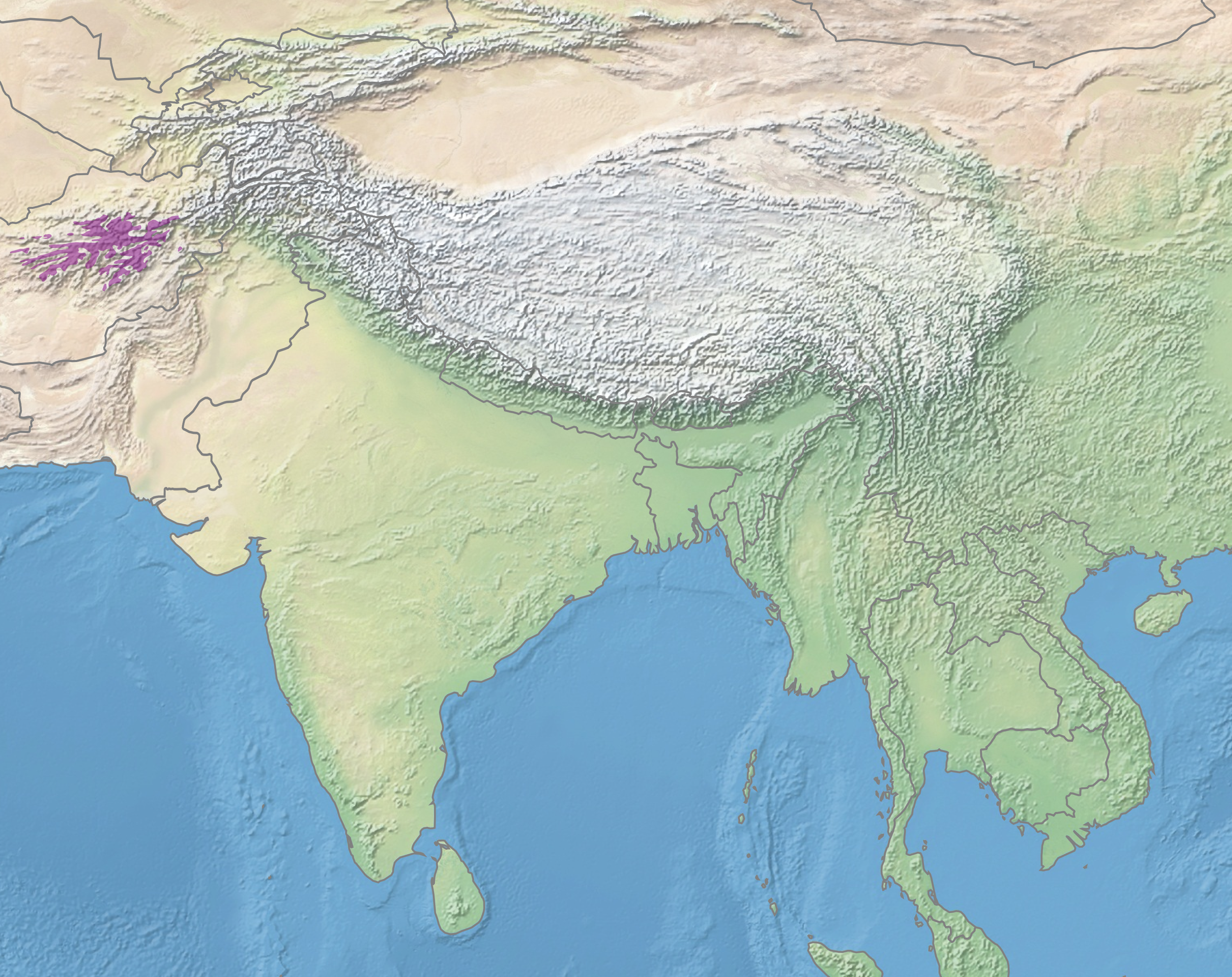 Ecoregion PA1004: Ghorat-Hazarajat alpine meadow